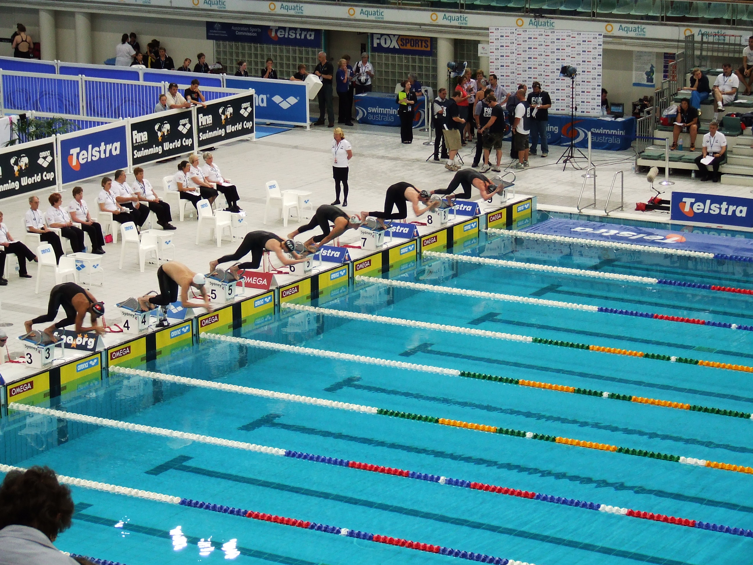 The start of a men's race at the 2008 FINA World Cup swimming at the Sydney Olympic Park Aquatic Centre